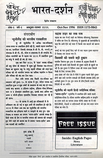 Bharat-Darshan Hindi Magazine from New Zealand (1st Issue - 2nd Edition, Oct-Nov 1996)